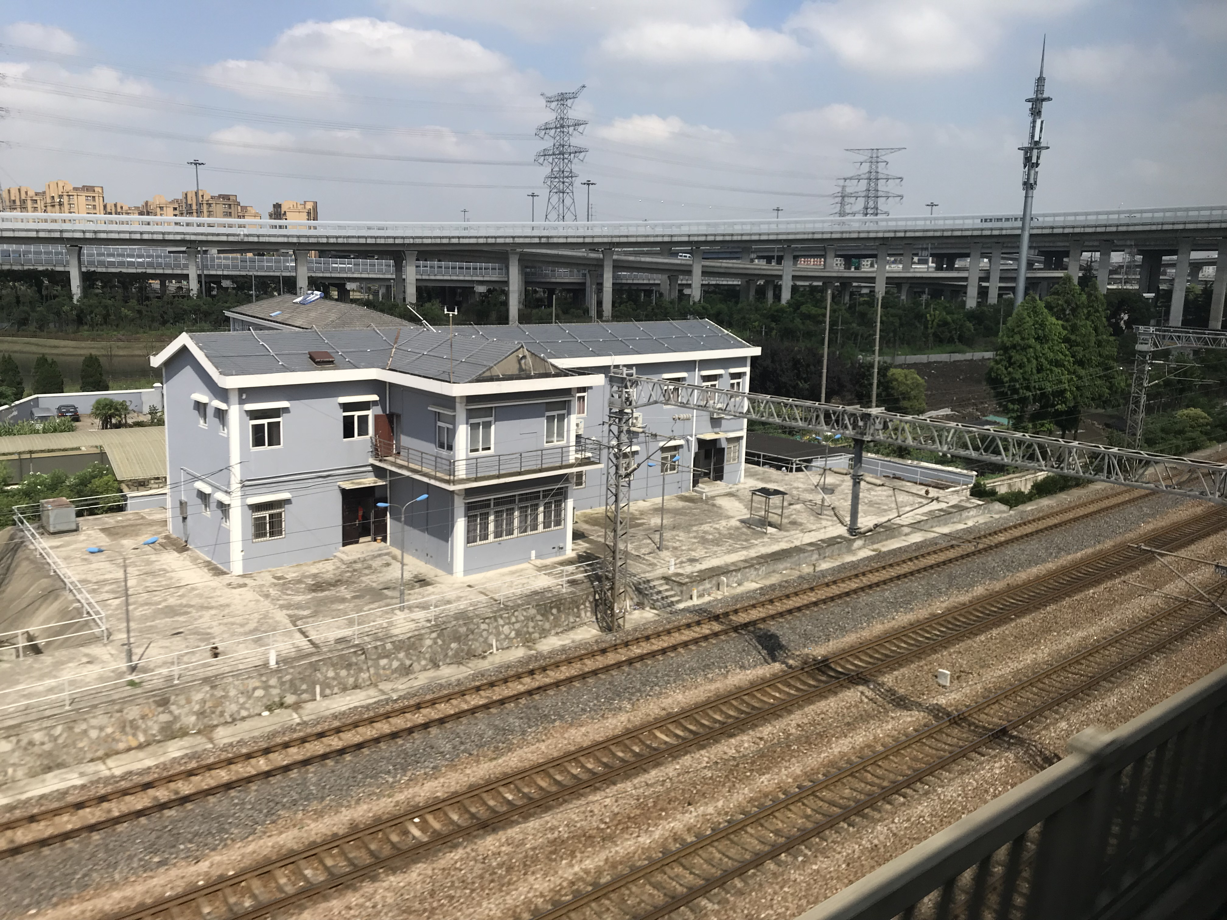 201806 Station Building of Lijiatang Station